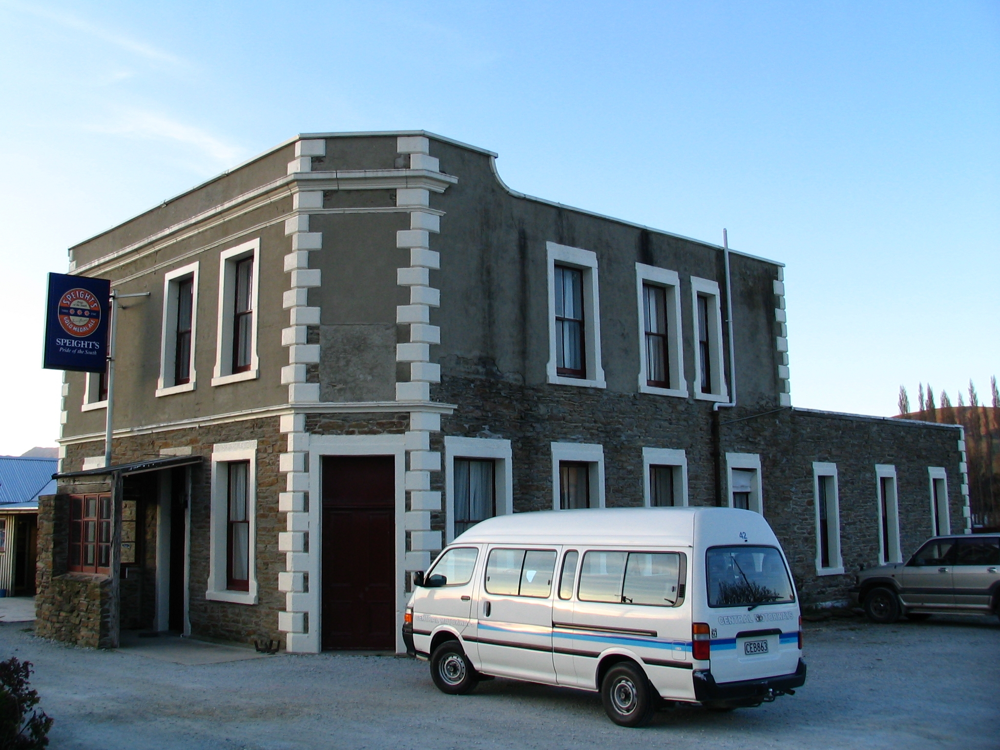 The Highwayman Hotel, State Highway 85, Dunback, Otago, New Zealand. Built in 1864 from the local shist and lime stone, originally called the Junction Hotel.